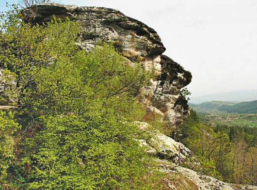 Ancient Thracian Face